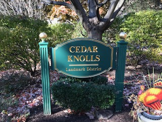 this sign is at one entrance to Cedar Knolls Historic District at the southeast end of Darcy park on Pondfield Rd West